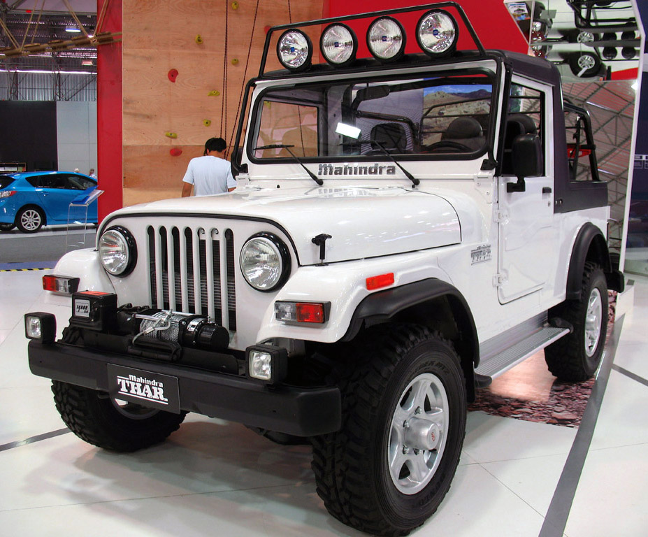 Mahindra Thar 2.5 CRDe 2011 at the 2010 Santiago Auto Show